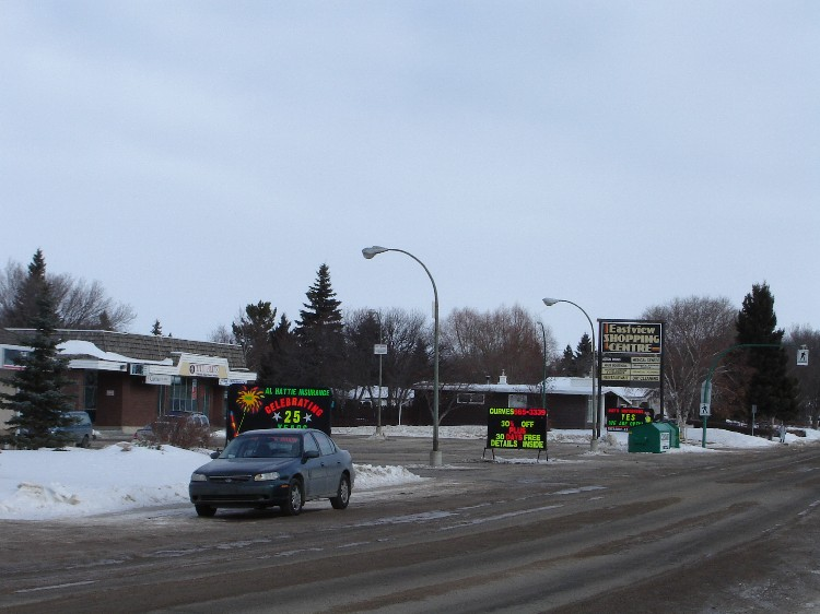 Eastview Shopping Centre, Eastview, Nutana SDA, Saskatoon, Saskatchewan, Canada